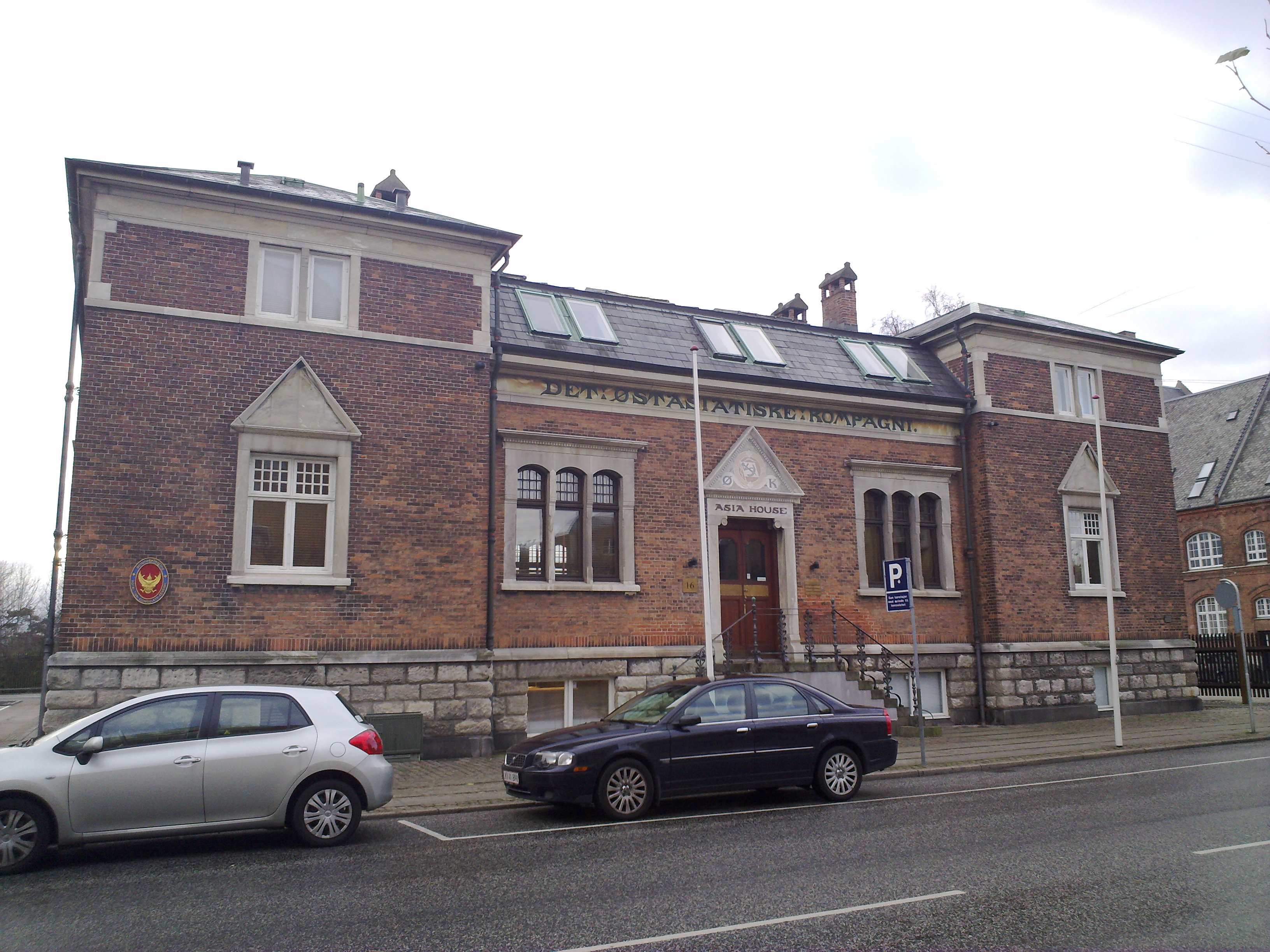 Asia House in Copenhagen, Denmark. Originally the headquarters of East Asia Company.